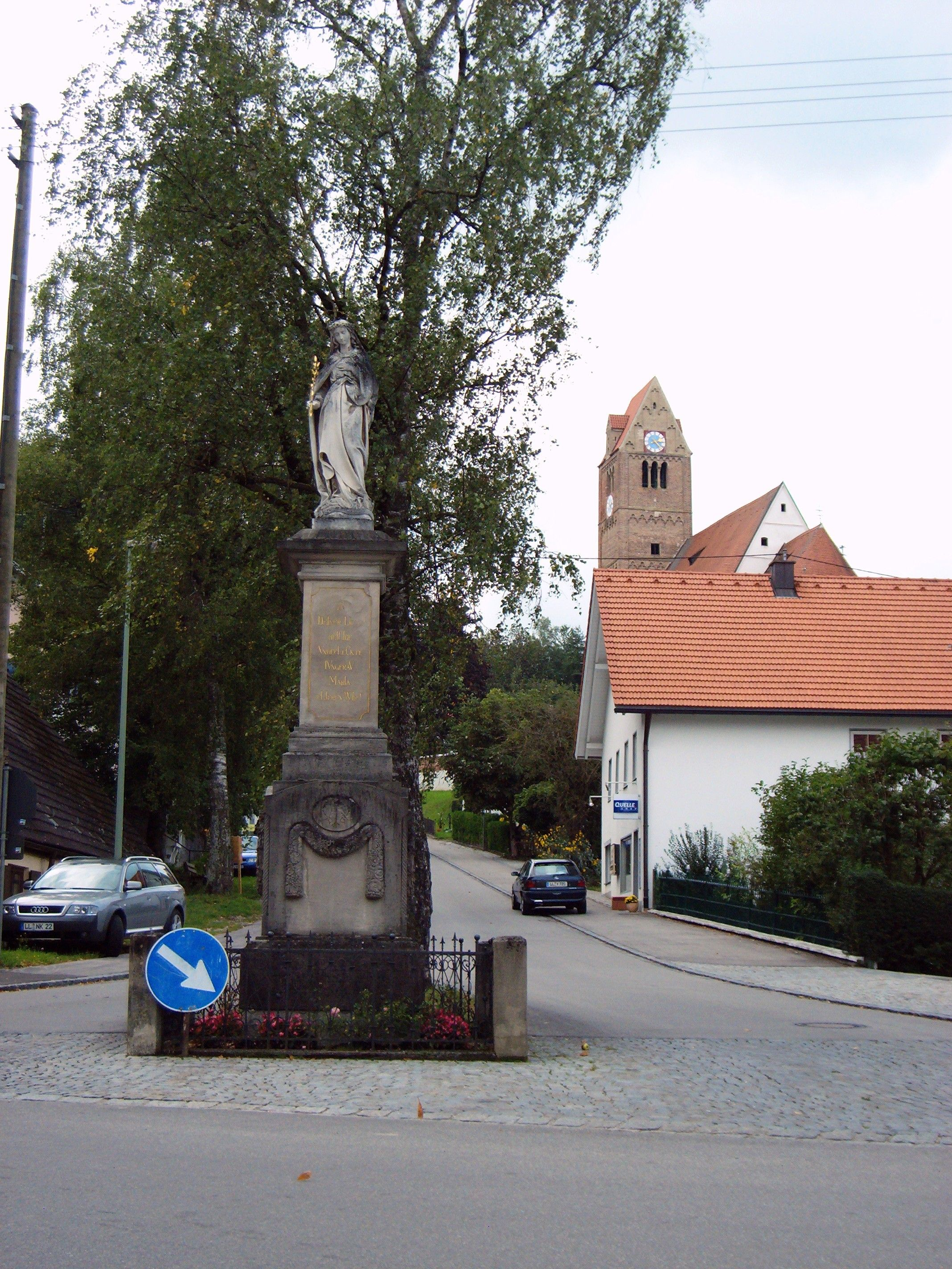 Leeder (Fuchstal), St Mary's Column (1889) in the town centre with the Parish Church of the Annunciation in background.